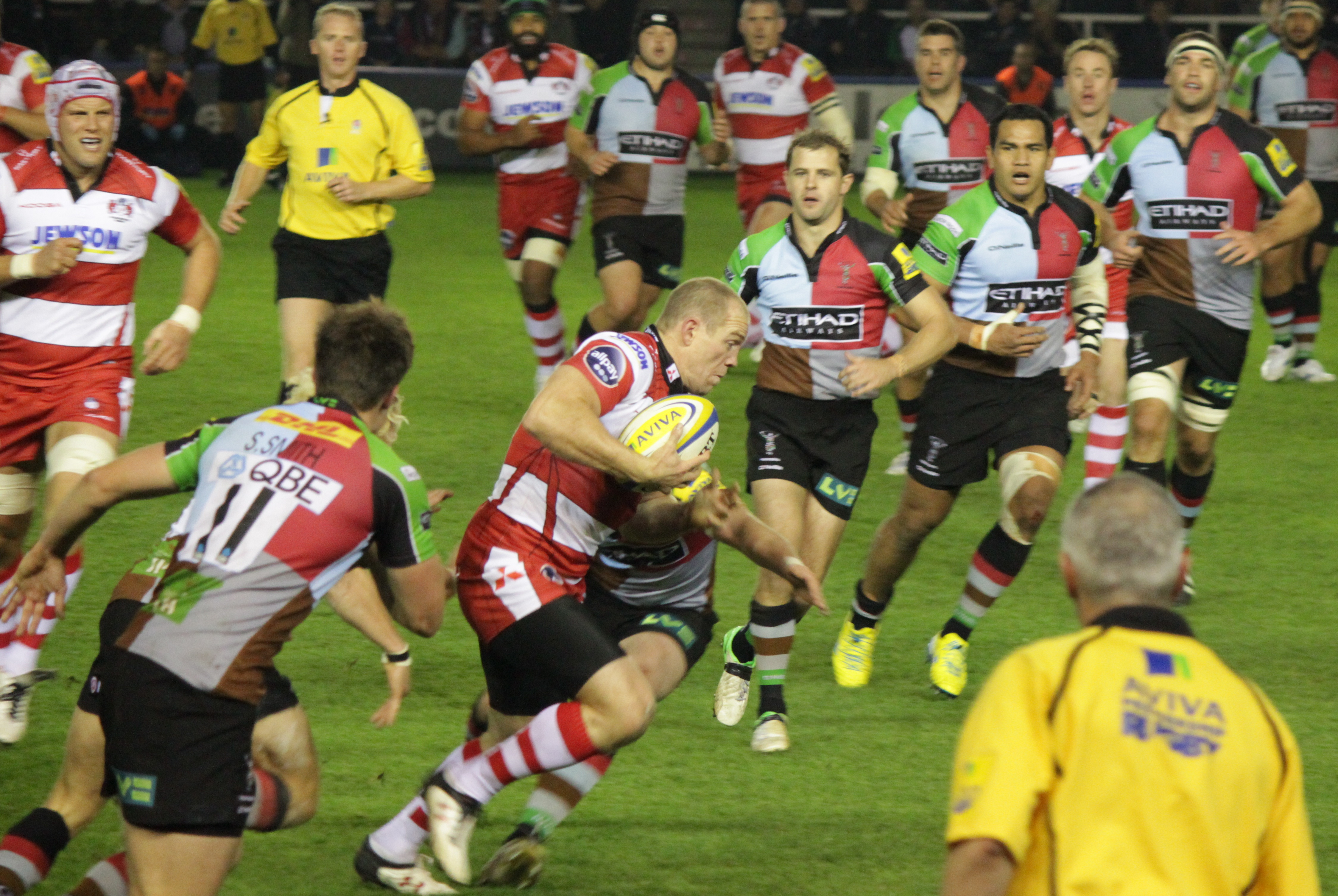 Mike Tindall 2012-13 English Premiership Harlequins vs Gloucester